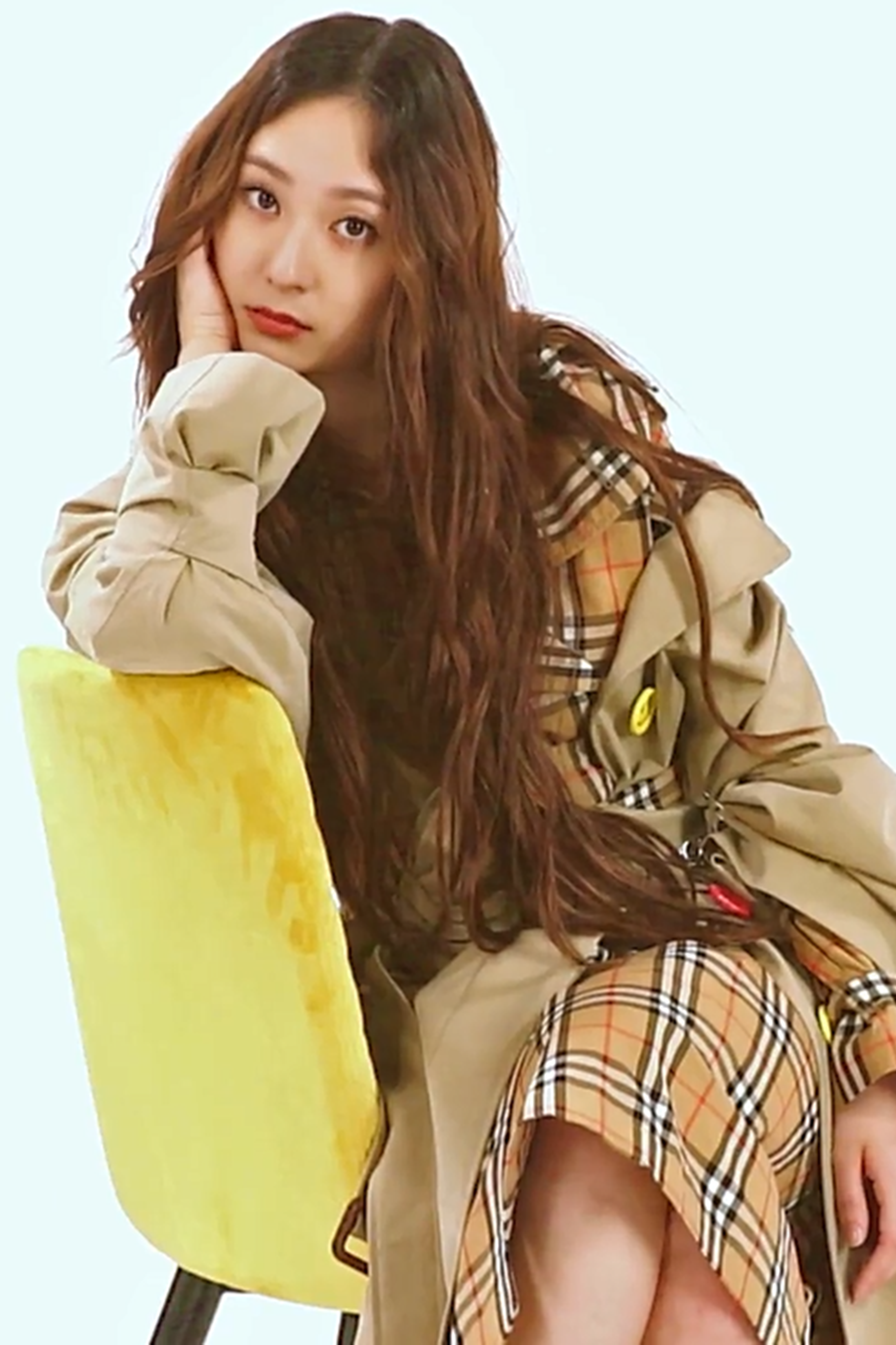 Krystal Jung for Marie Claire Korea Magazine May Issue 2018